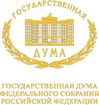 Emblem of the Gosduma (State Duma) of Russia